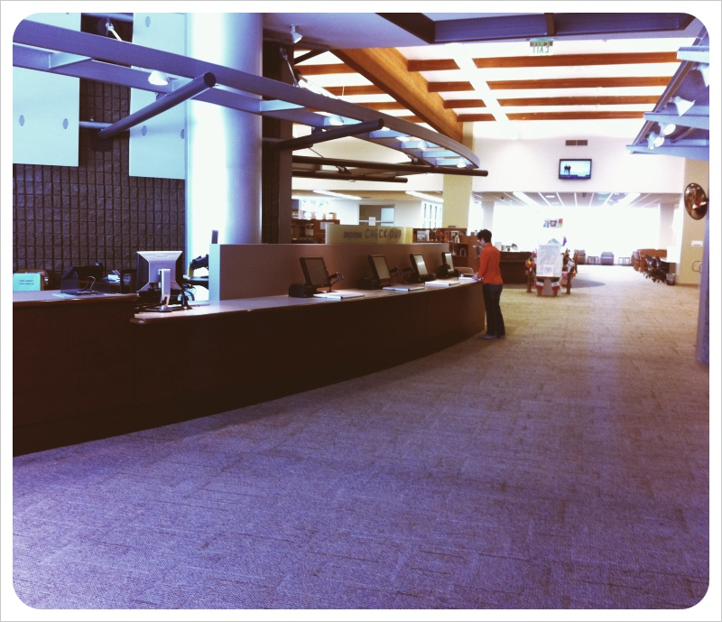 The lobby/self check out stations at the Fullerton Public Library after the 2011 remodel.